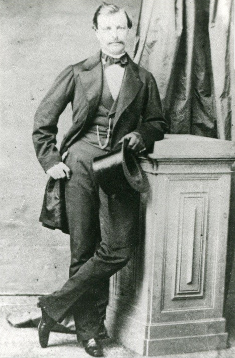 Portrait photograph of the 3rd Count of Linhares, Rodrigo de Sousa Coutinho Teixeira de Andrade Barbosa (1823-1894)